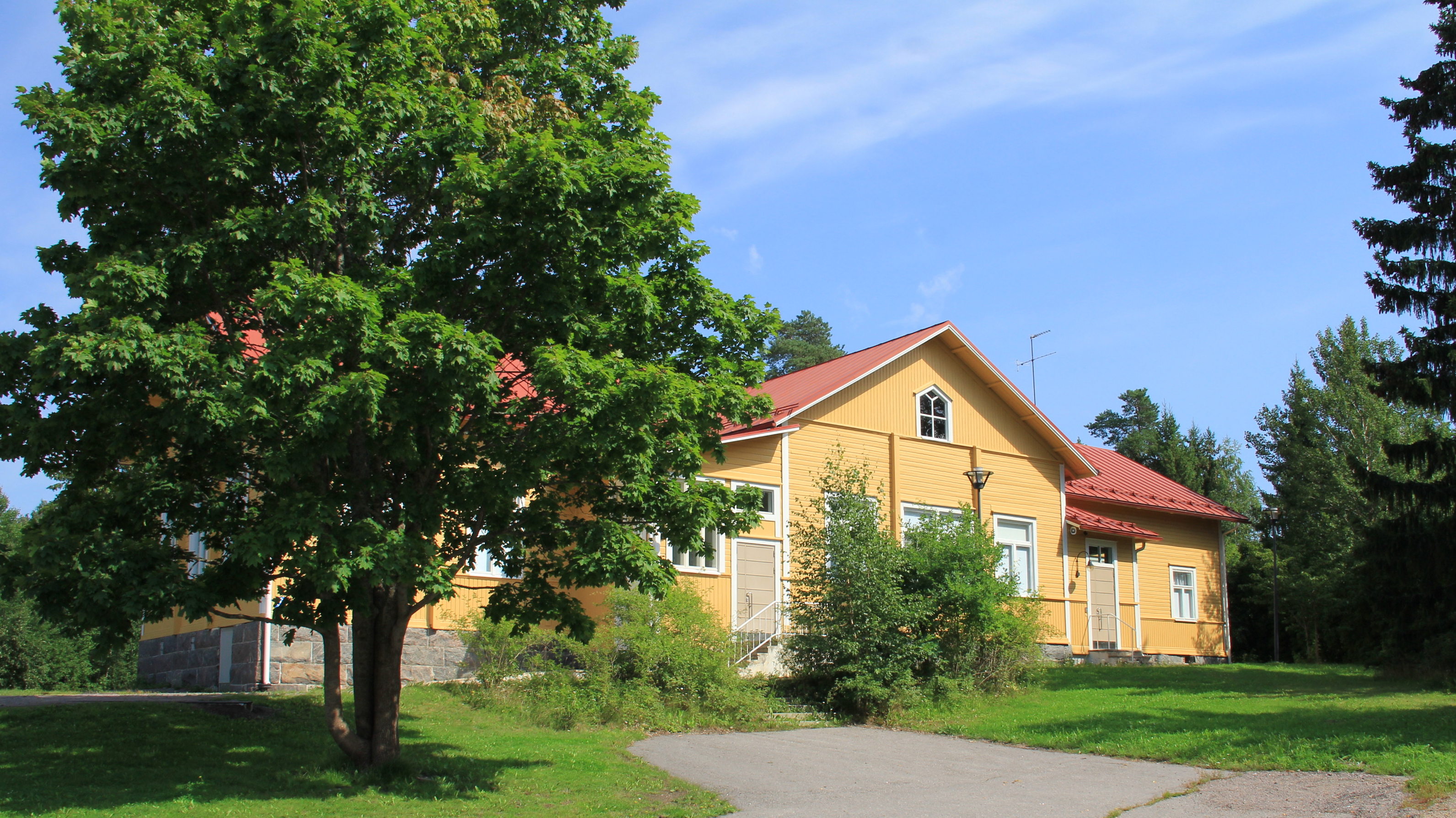 Sääksjärvi old school, Sääksjärvi, Mäntsälä, Finland. - School was completed in 1891.